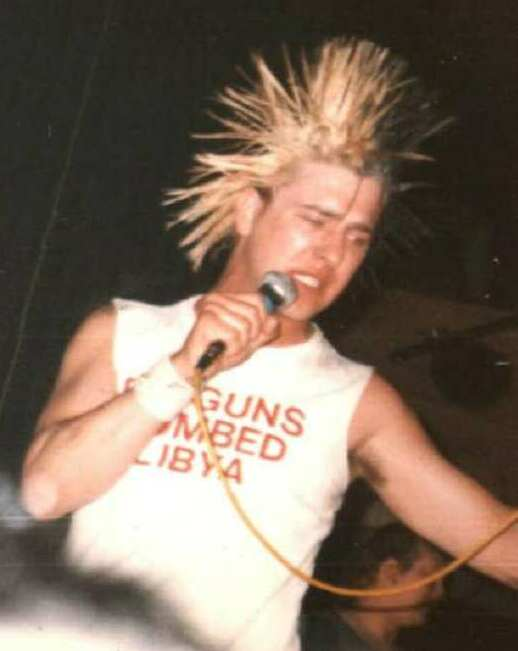 Conflict, Leeds University 1986 homie